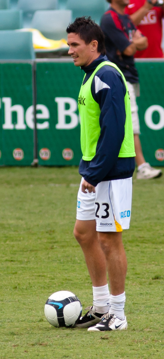 Steve Fitzsimmons playing for Gold Coast United against Sydney FC in the 2009-10 A-League.